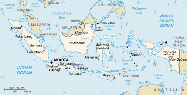 Indonesia map from the CIA World Factbook website